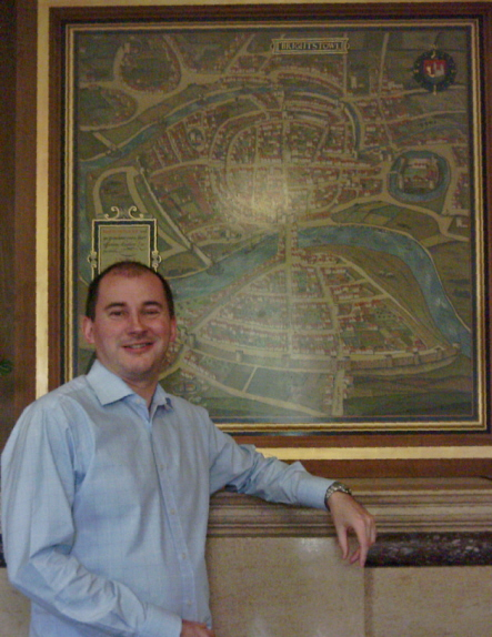 Stephen Williams MP (Bristol West) in the Lord Mayor's Reception Room (Bristol City Council - The Council House), taken 31 July 2006 (sic)